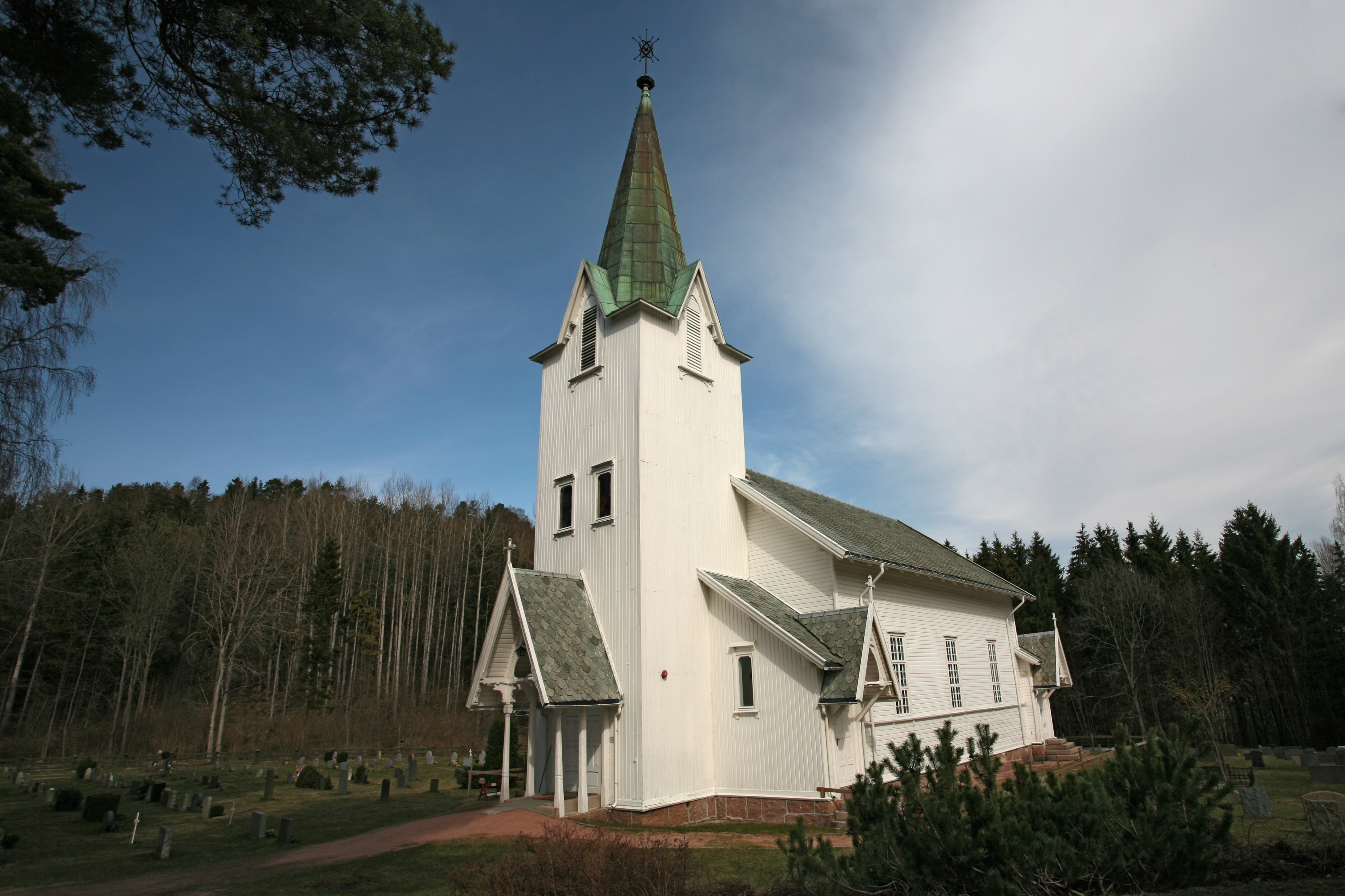 Picture of Berger Kirke (Vestfold - Norway)